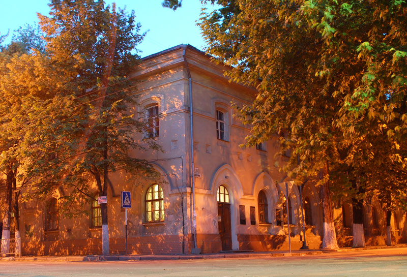 formerly Amalie Adlerberg's orphan asylum in Simferopol, Ukraine, now Museum of Ethnography of Crimean Nations